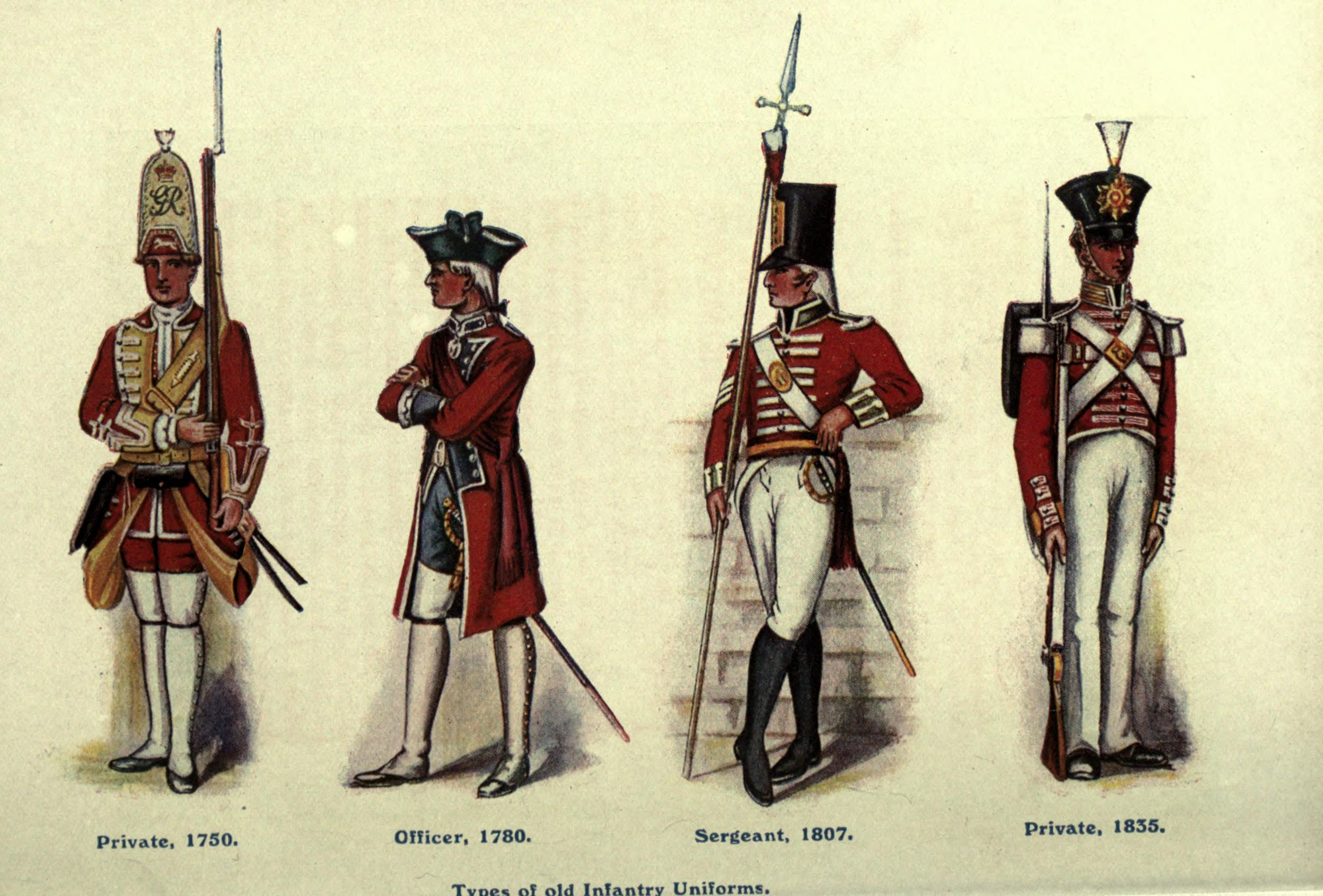 Types of old infantry uniforms of the British army.